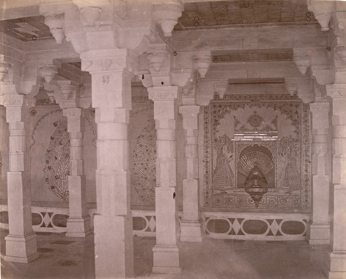 Pillared hall with glass and mirror mosaic decorations, in the Jalnavas or Fountain Palace, City Palace, Udaipur